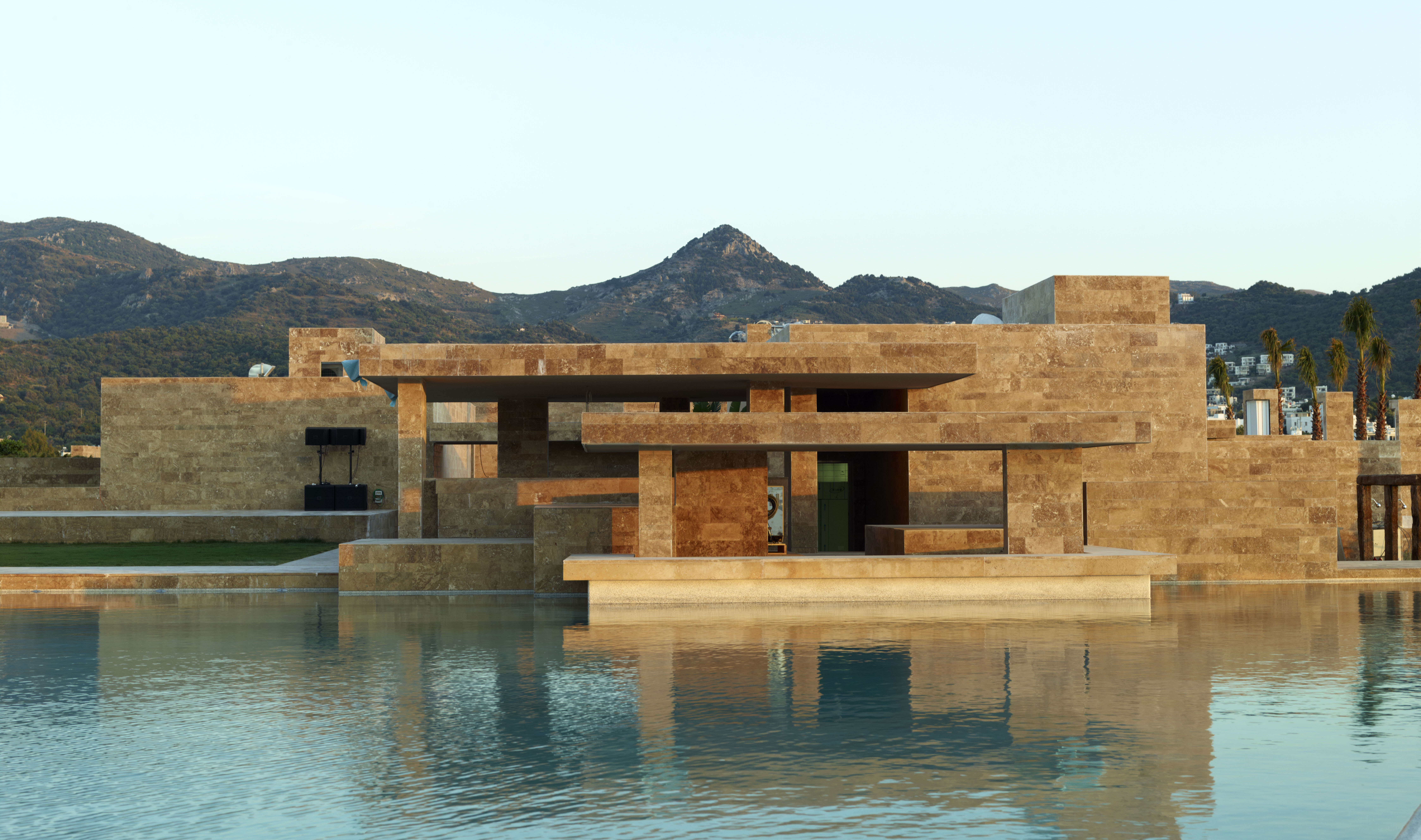 Yalıkavak is one of the lagoons on the south western coast of Turkey, which is becoming a popular destination for blue voyages along the Turkish Riviera. Unlike its provincial center Bodrum, which has faced a building boom in 1980s with the increase of touristic activities, Yalikavak is still among relatively calm, silent and untouched bays of the peninsula.